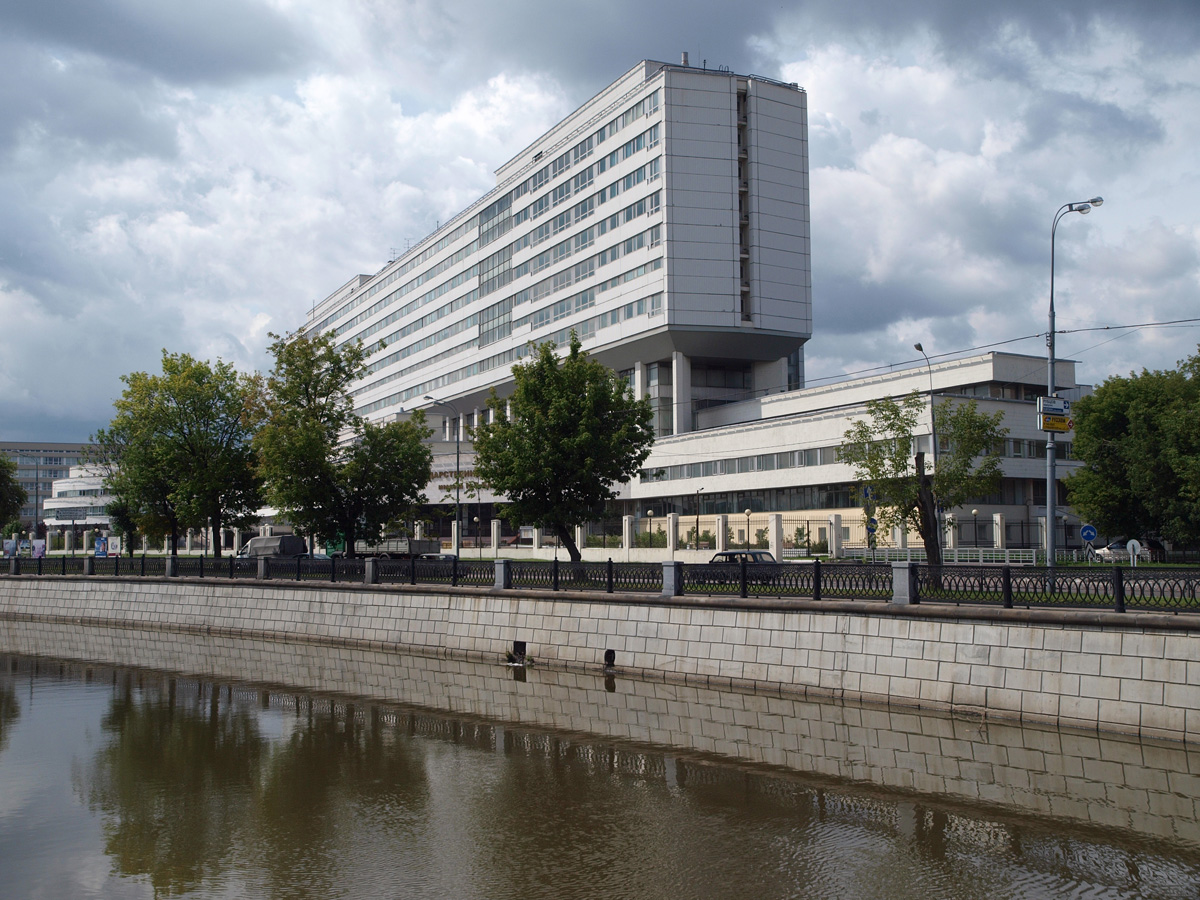 Rubtsovskaya Embankment, Moscow. Laboratory building of the Bauman Moscow State Technical University. The ill-fated block designed in the 1980s was under construction for around twenty-five years, completed only in 2004.